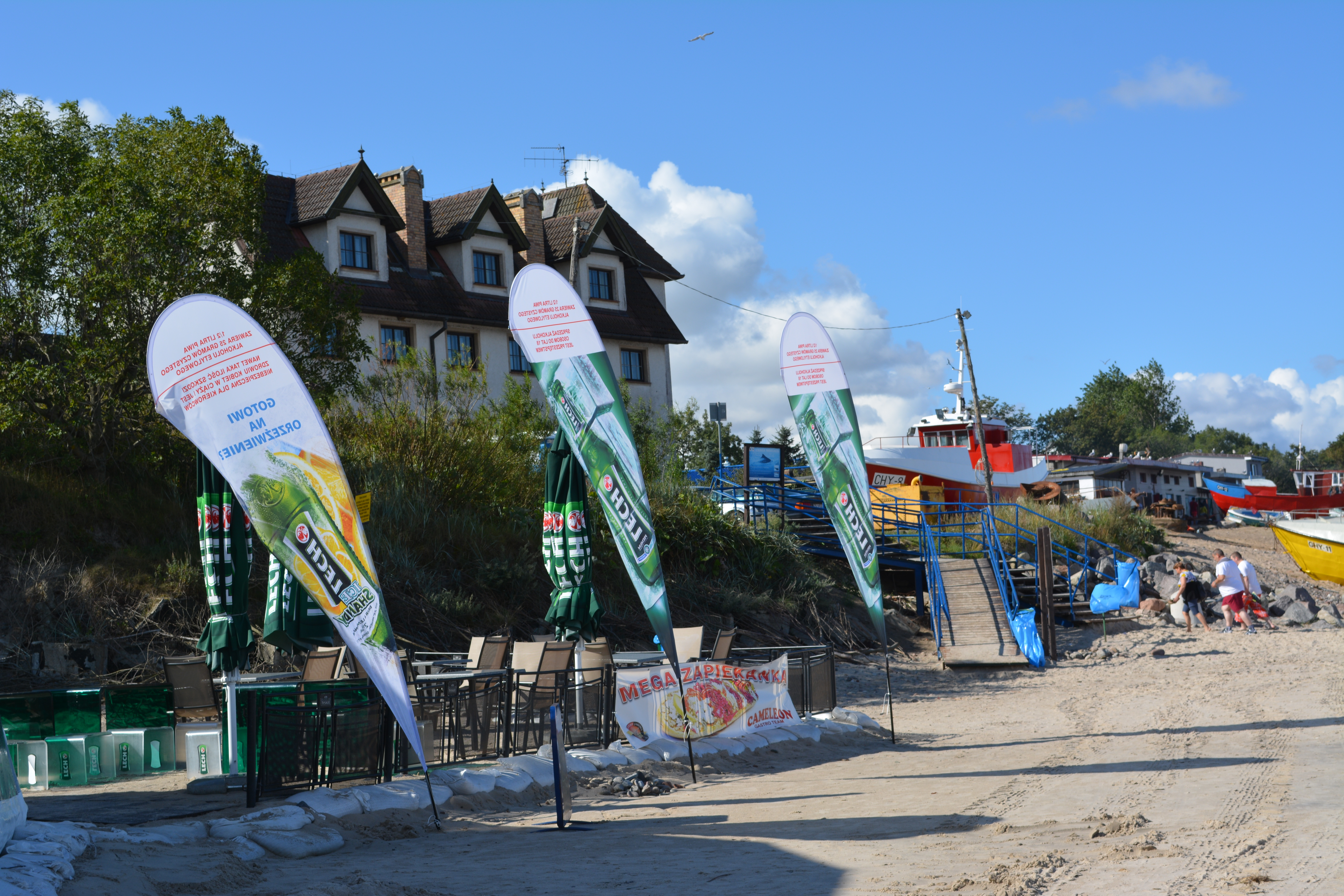 Beach of Chlopy, municipality Mielno, in the district of Koszalin